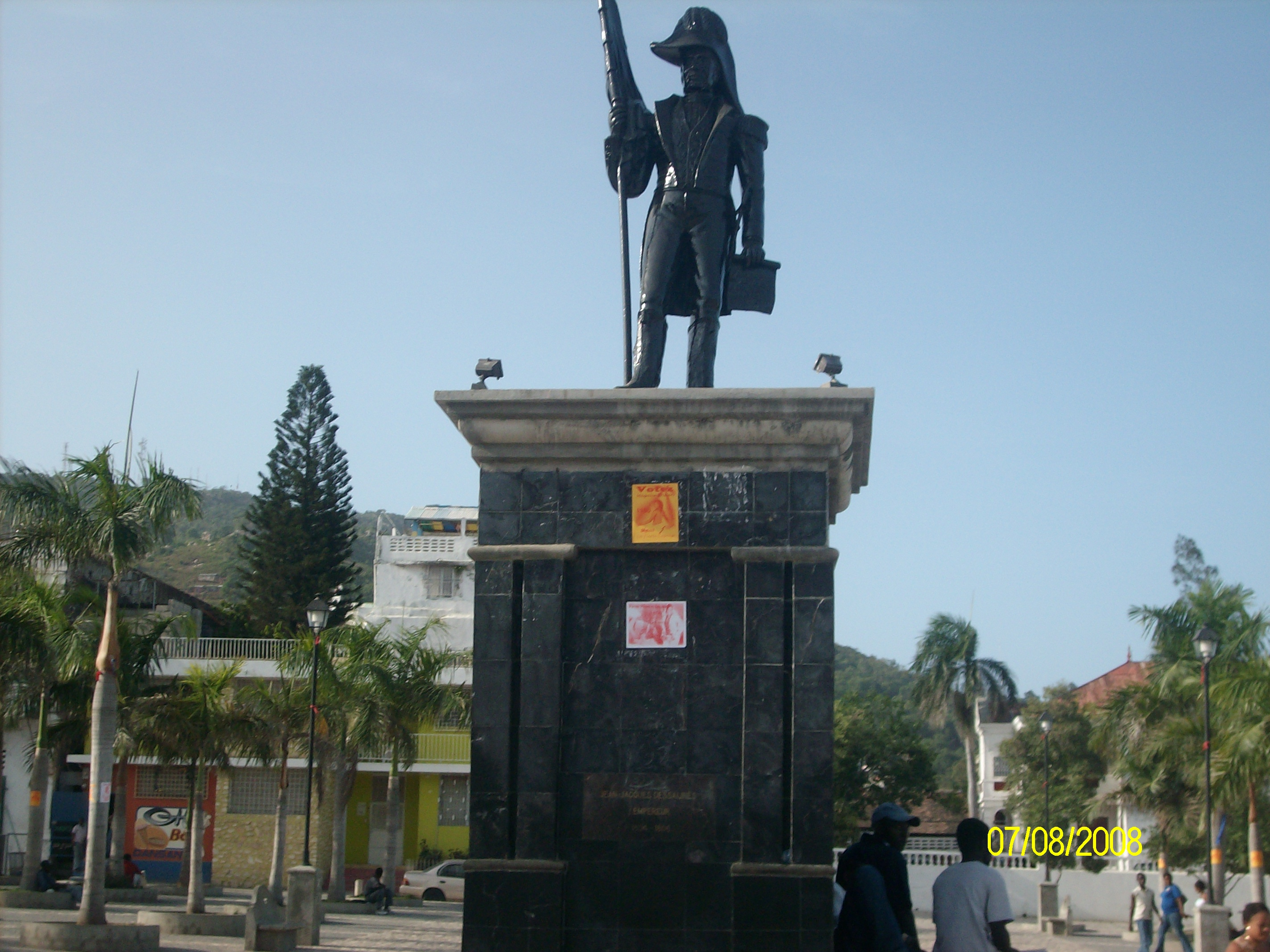 Jean-Jacques Dessalines. Death and Legacy